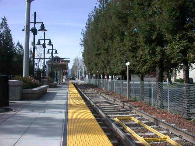 Race station on the Santa Clara VTA light rail system - looking southwest along the platform.